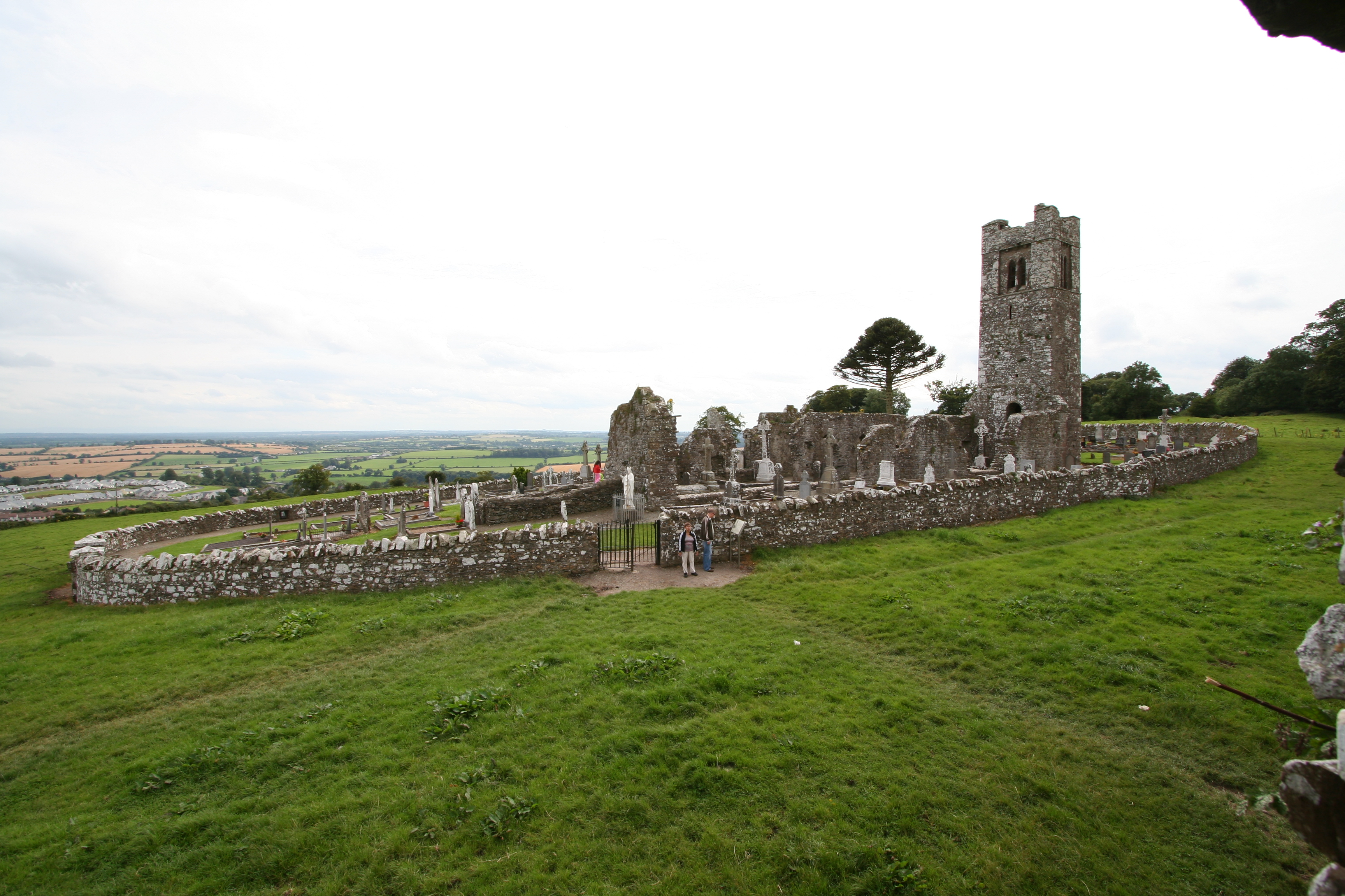 Hill of Slane